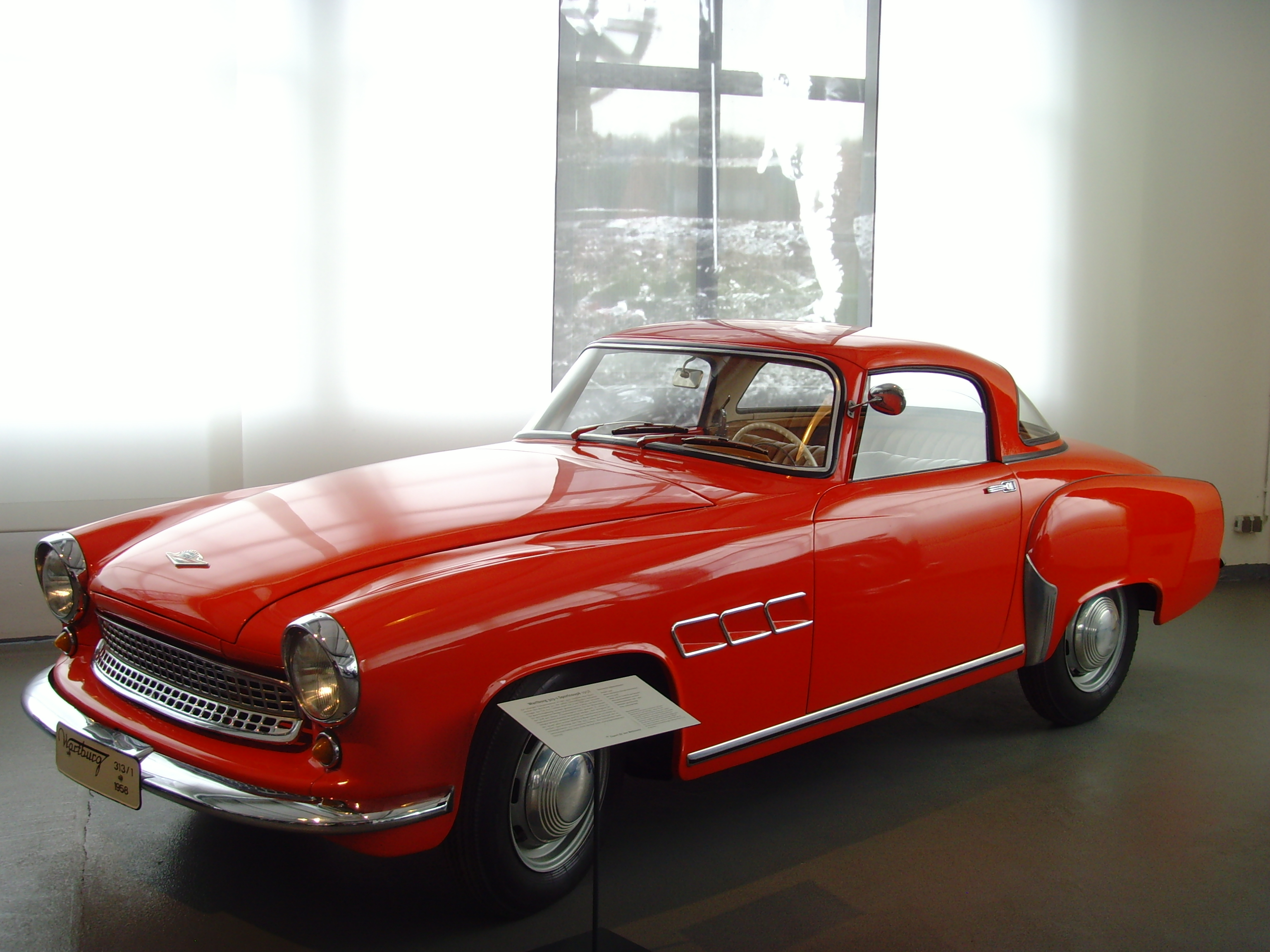 Wartburg 313-1 Sportcoupe 1958